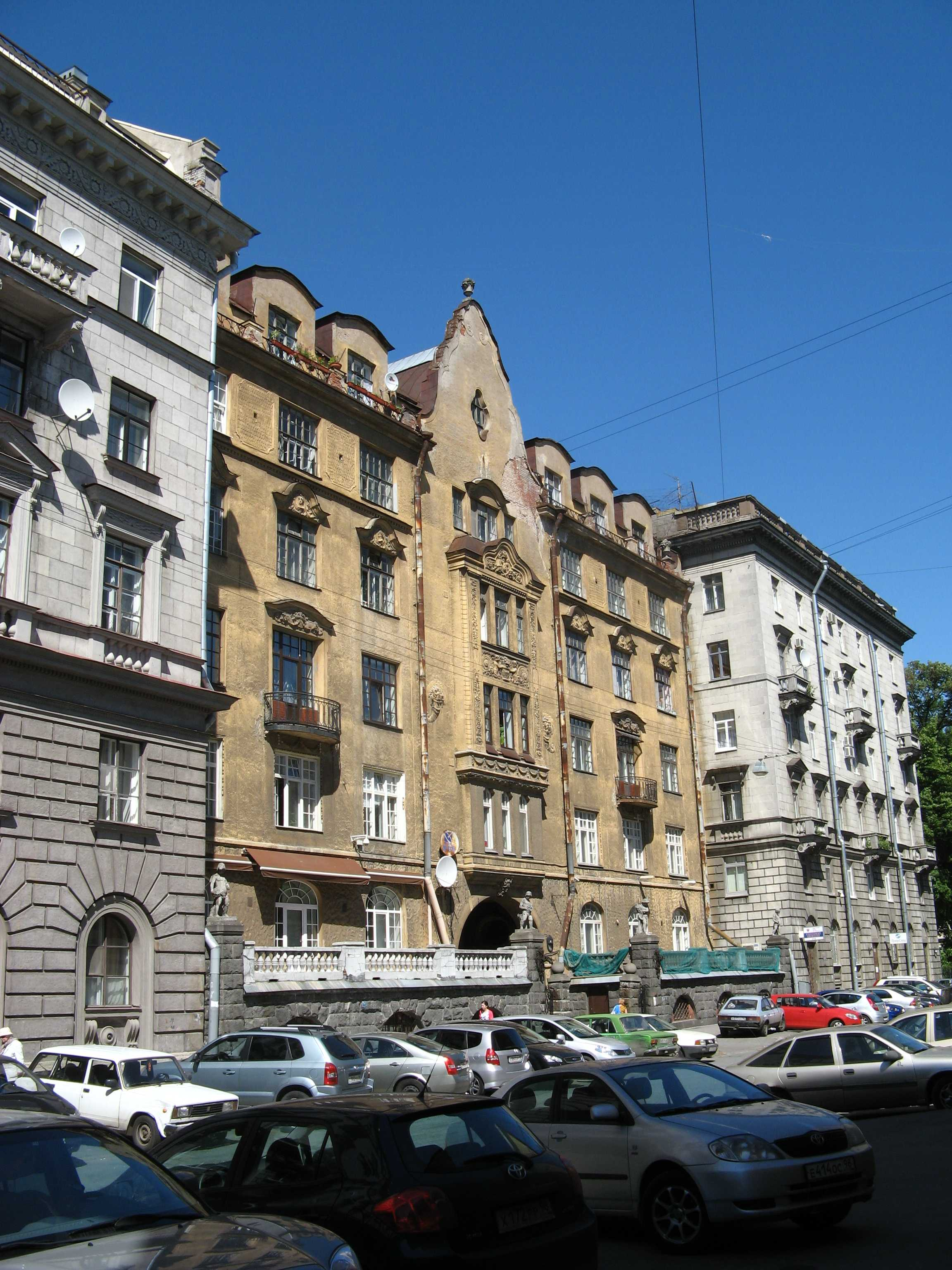 Rentgena Street, 4 (St. Petersburg)